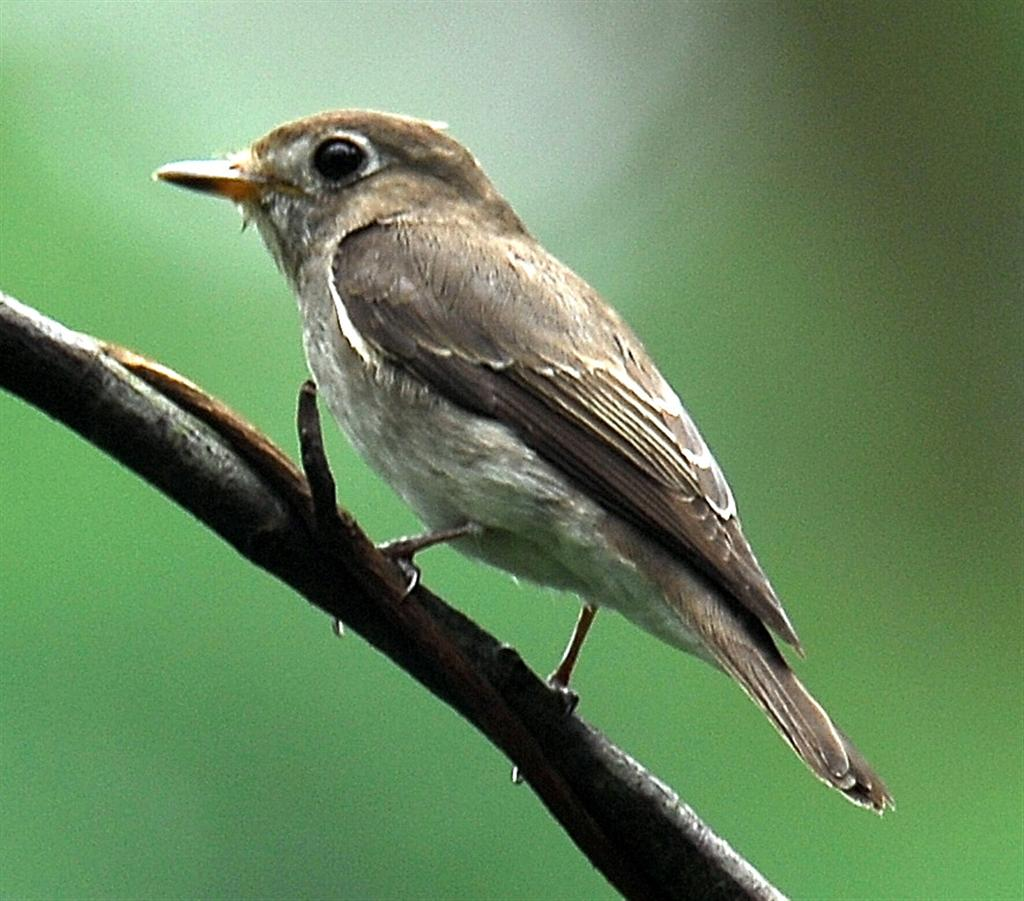 Blue-and-white Flycatcher Cyanoptila cyanomelana, female; Bukit Timah Nature Reserve, Singapore.